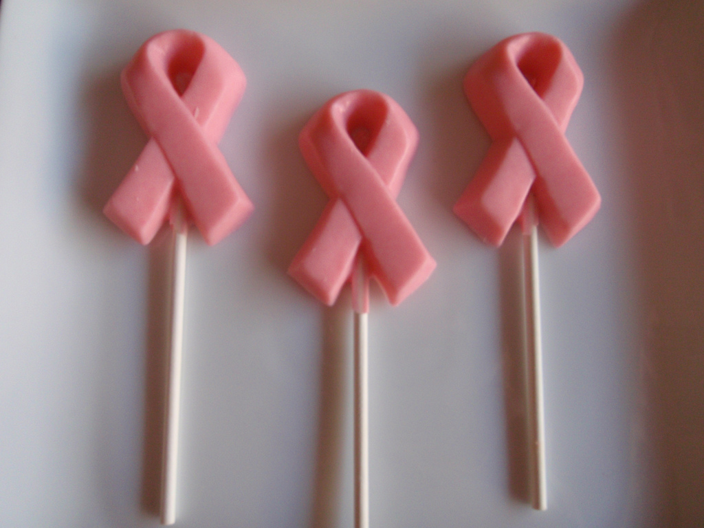 Pink Ribbon chocolate lollipops for Breast Cancer Awareness Month.